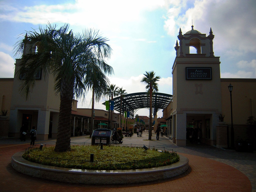 Ami Premium Outlets(Ami,Ibaraki,apan)